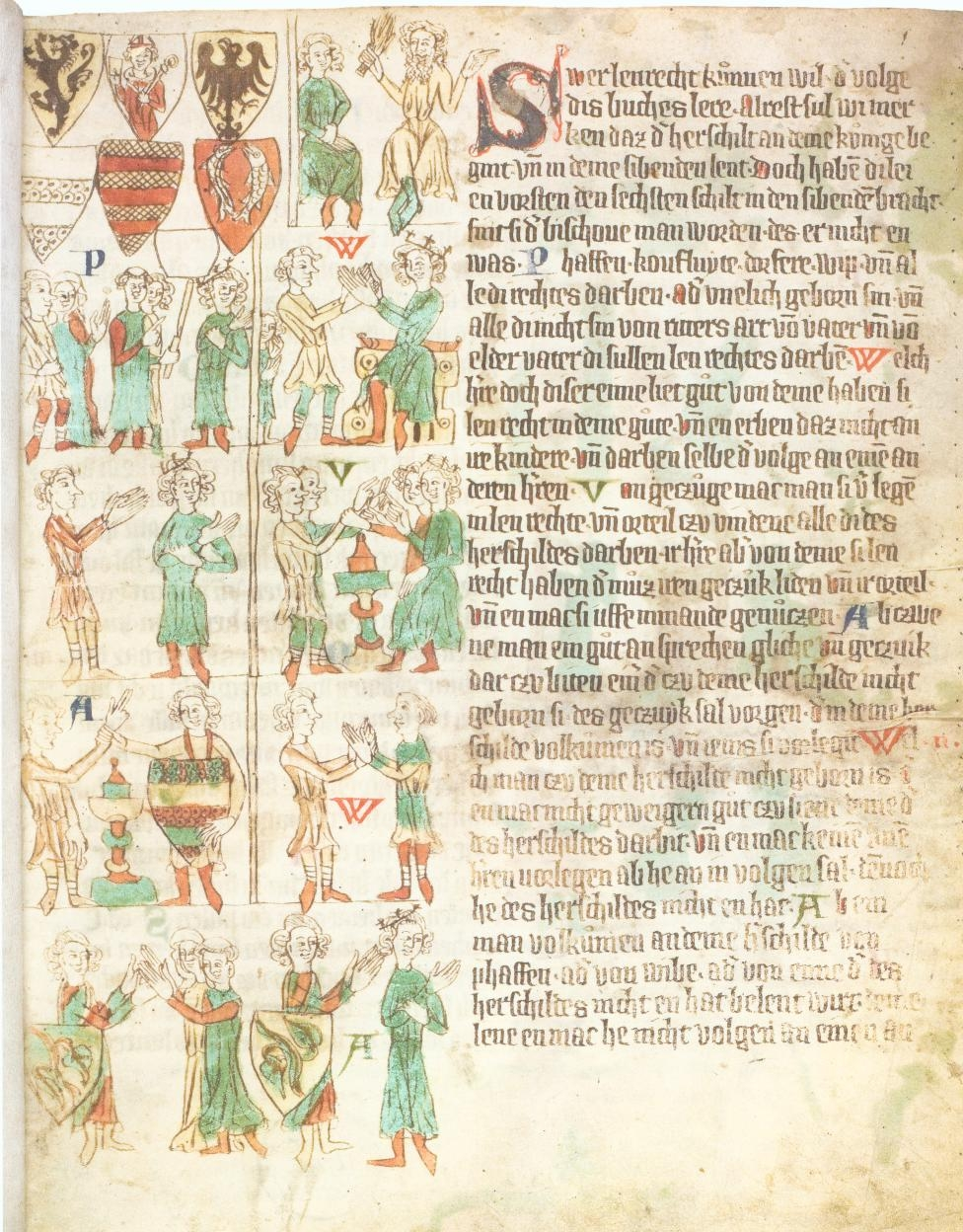 Scan from Drei Innovationsregionen im mittelalterlichen Europa. Band 1: Essays, by Alfried Wieczorek, Bernd Schneidmüller and Stefan Weinfurter (eds.), Darmstadt, 2010, p. 416